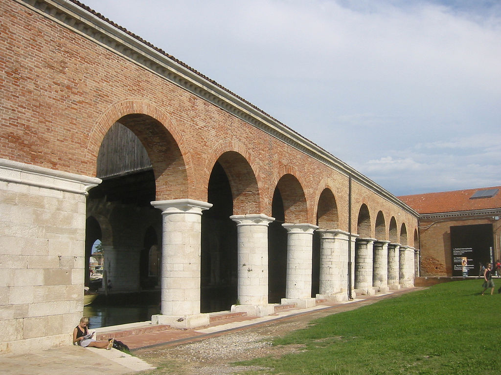 Arsenale, Venezia, Italy